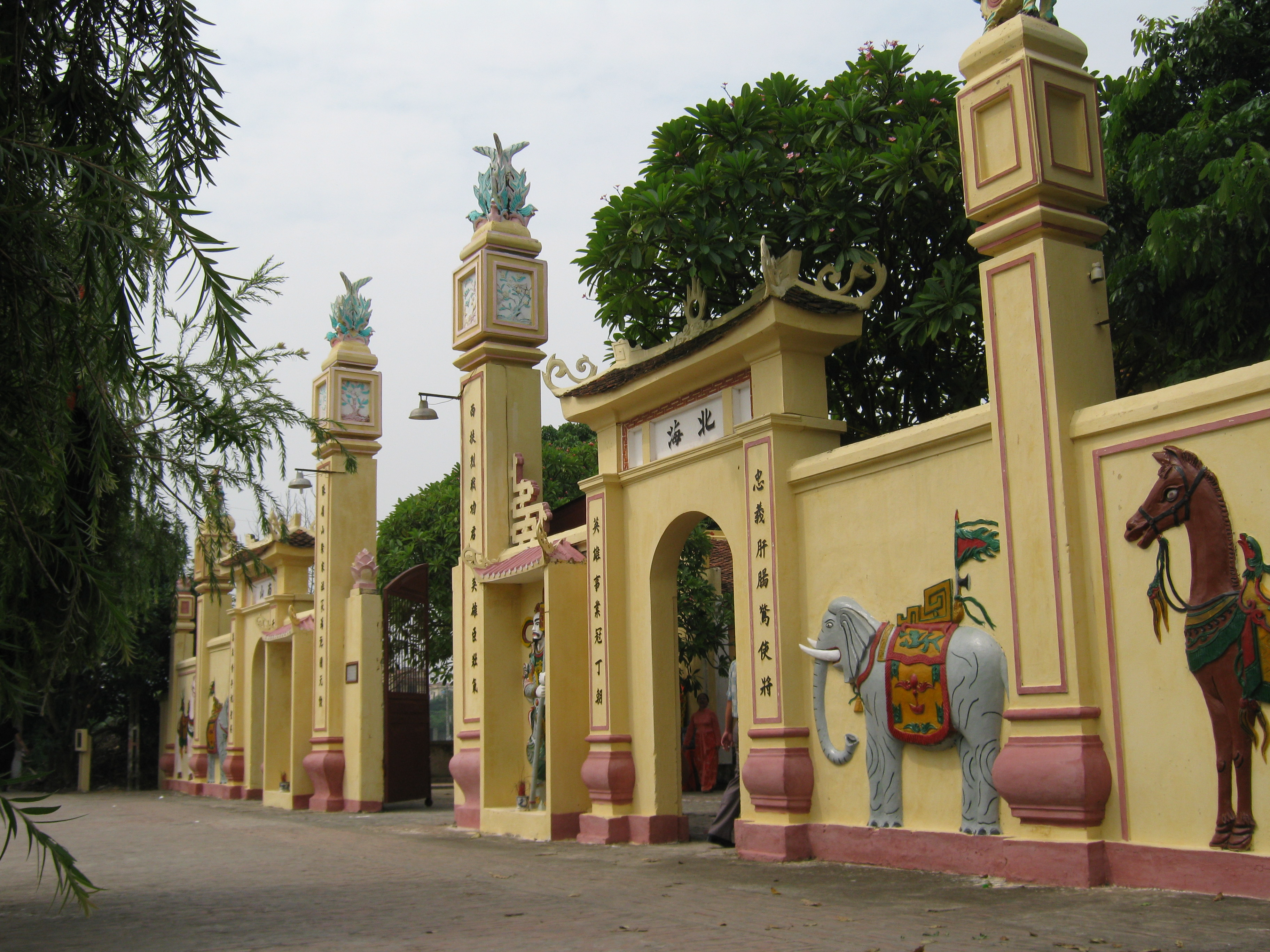 Đình Ba Dân community house gate, Hanoi